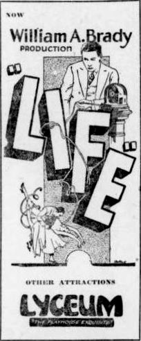 Newspaper advertisement for the American drama film Life (1920), on page 15 of the December 14, 1921 Duluth Herald.